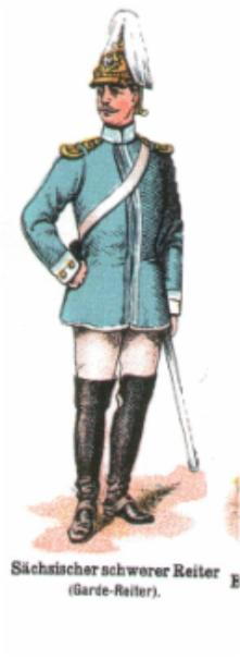 1st Royal Saxon Guards Heavy Cavalry